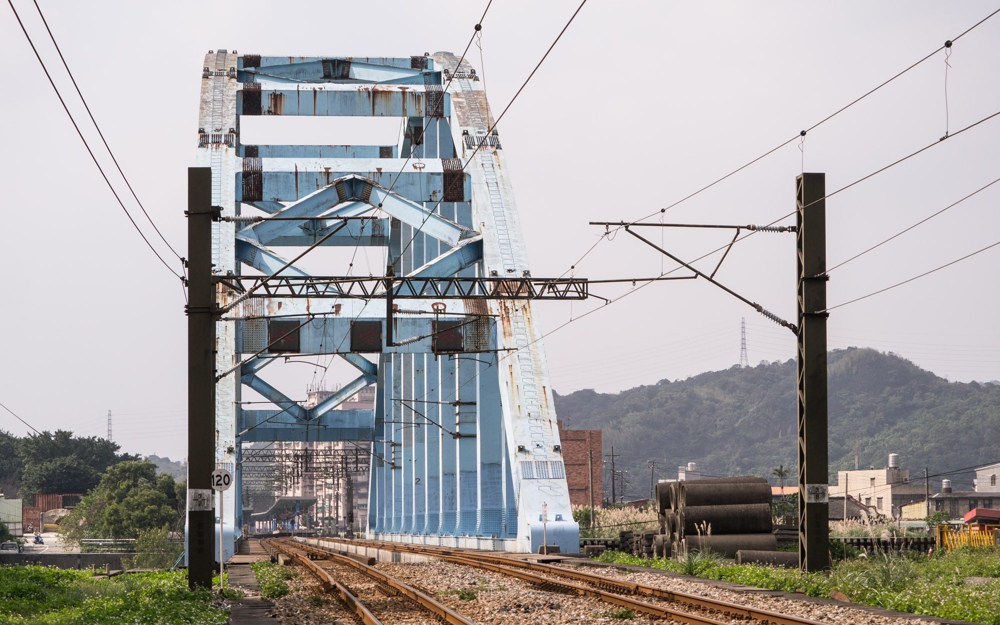 View looking through rusty Badu Bridge towards the platform of Badu Station.